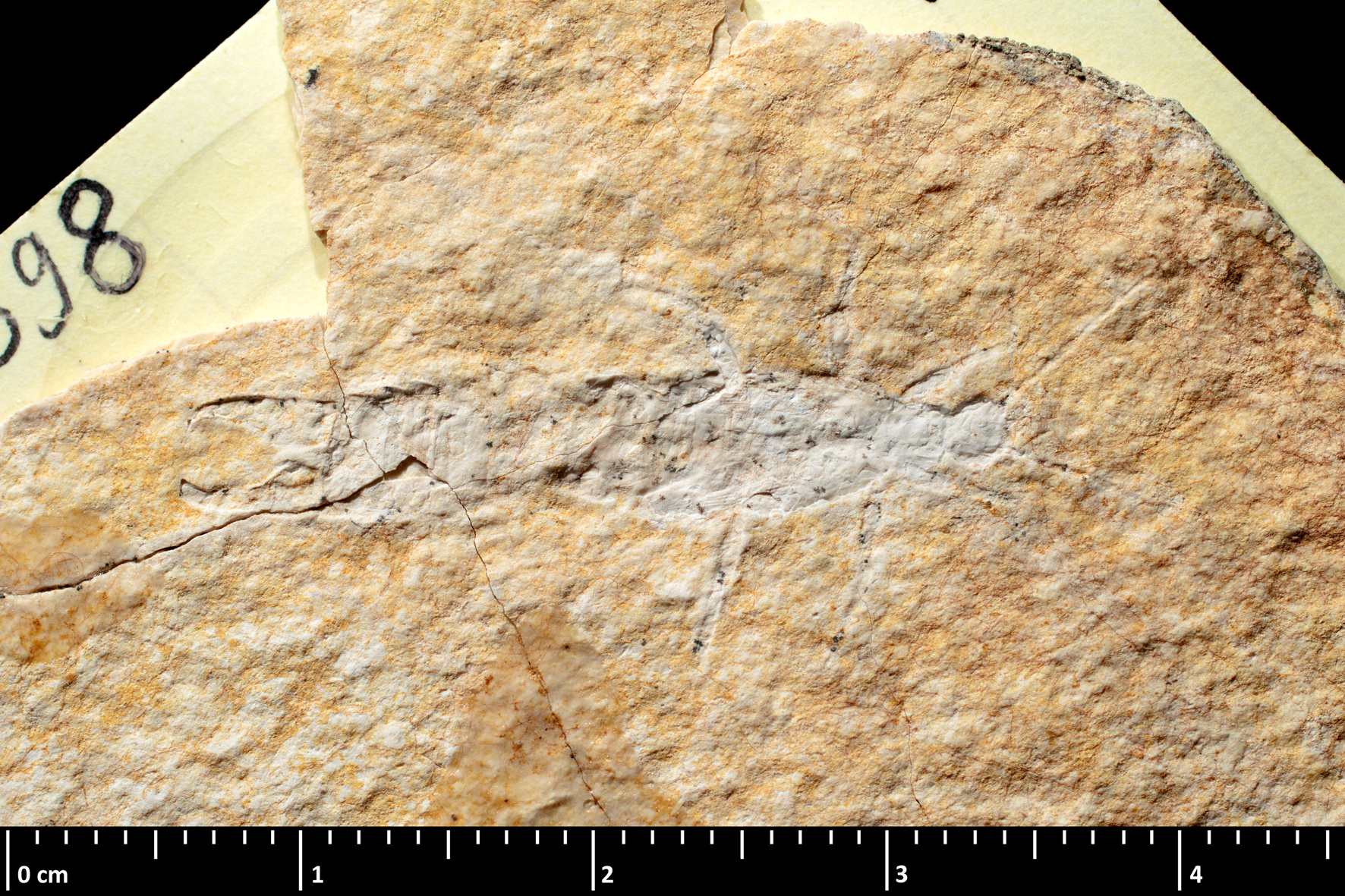 The Forficula paleoligura holotype specimen part side with direct lighting. Late Oligocene; Camoins-les-Bains, Bouches-du-Rhone, France Muséum national d'Histoire naturelle specimen MNHN.F.R10398